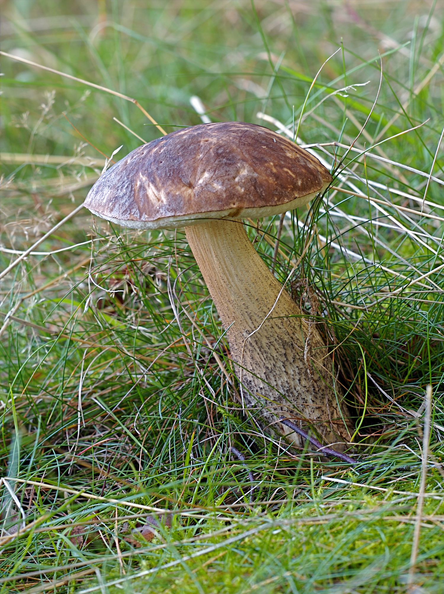 Birch bolete (Leccinum scabrum), Chemnitz, Germany